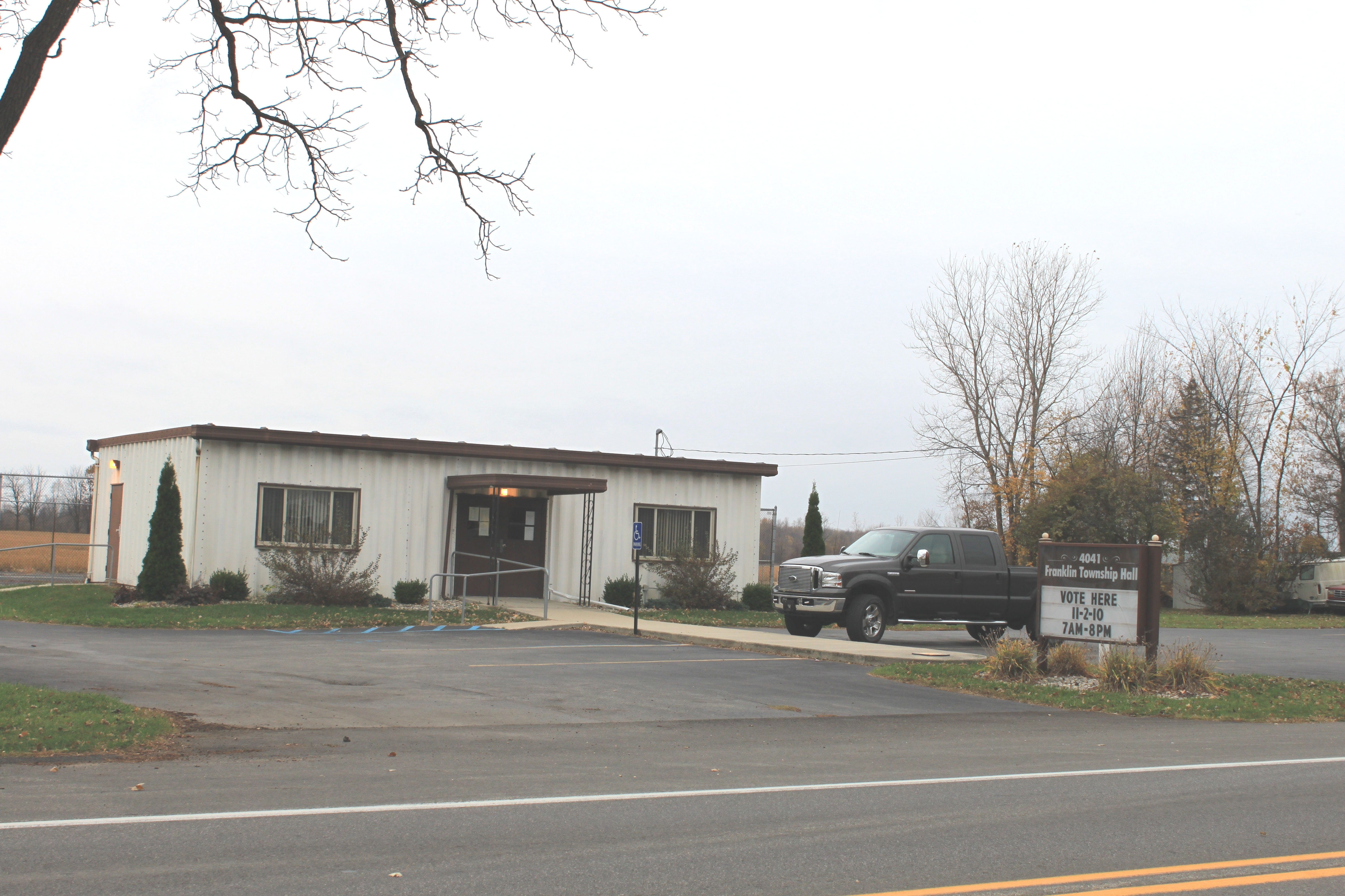 Franklin Township Hall, 4041 Monroe Rd., Tipton, Michigan